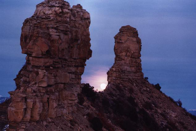 Chimney Rock at moonrise.